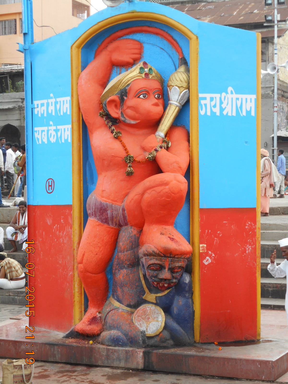 This is another pose of Lord Hanuman in Ramkund